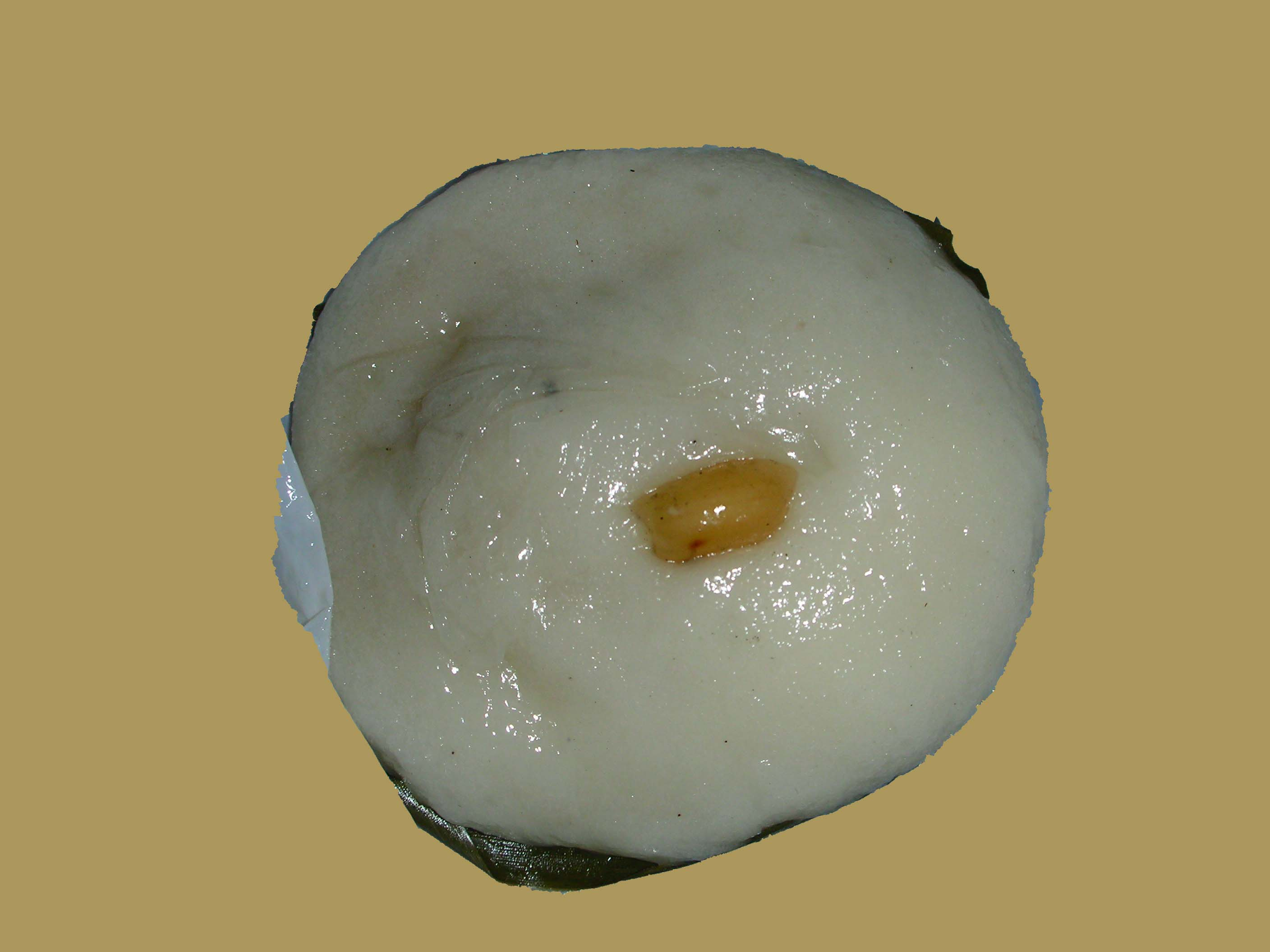 Cha Kwo, a traditional Hong Kong snack food, found at Tai O, Hong Kong 茶粿，攝於香港大澳（本照片曾經去除背景色處理）